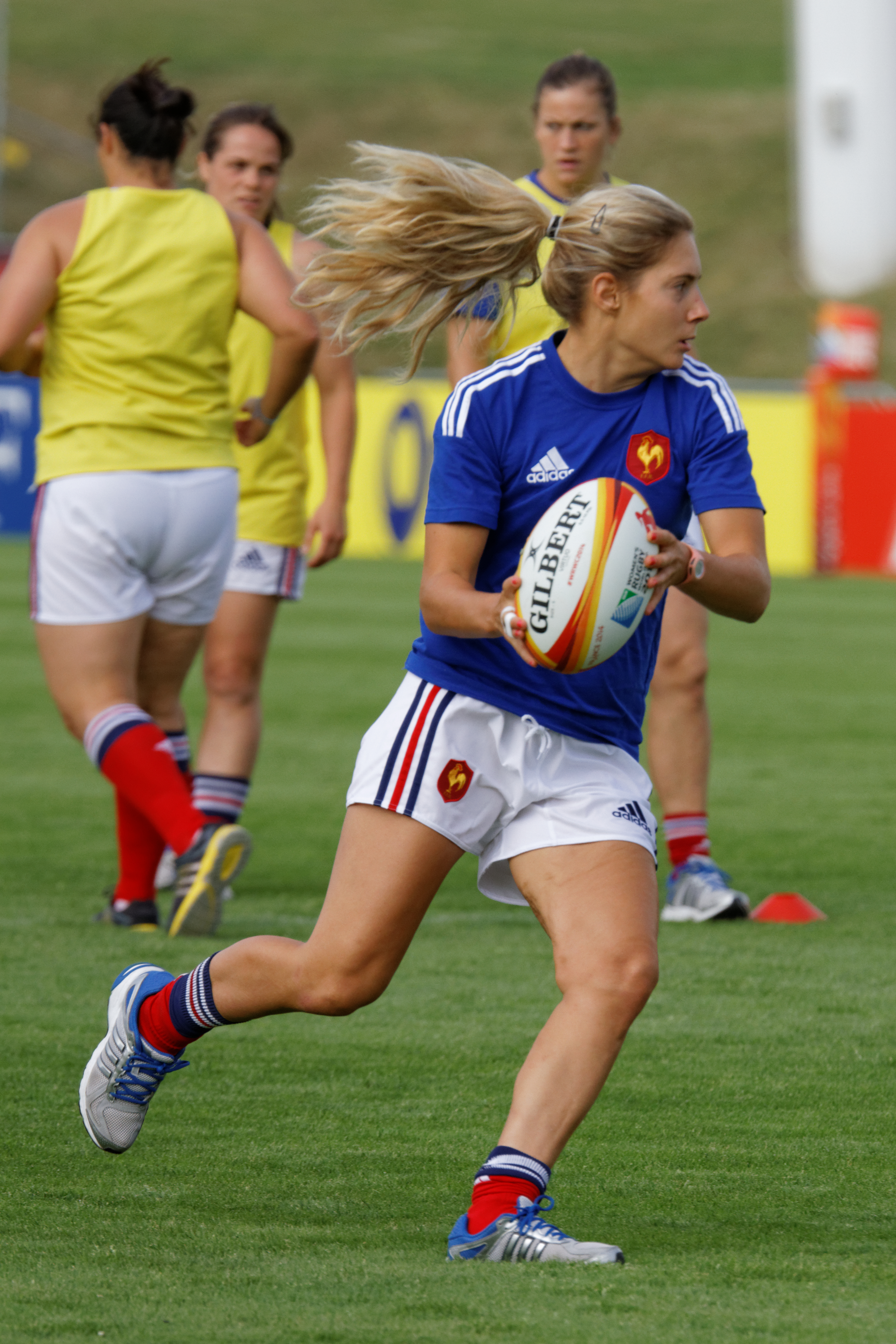 2014 Women's Rugby World Cup